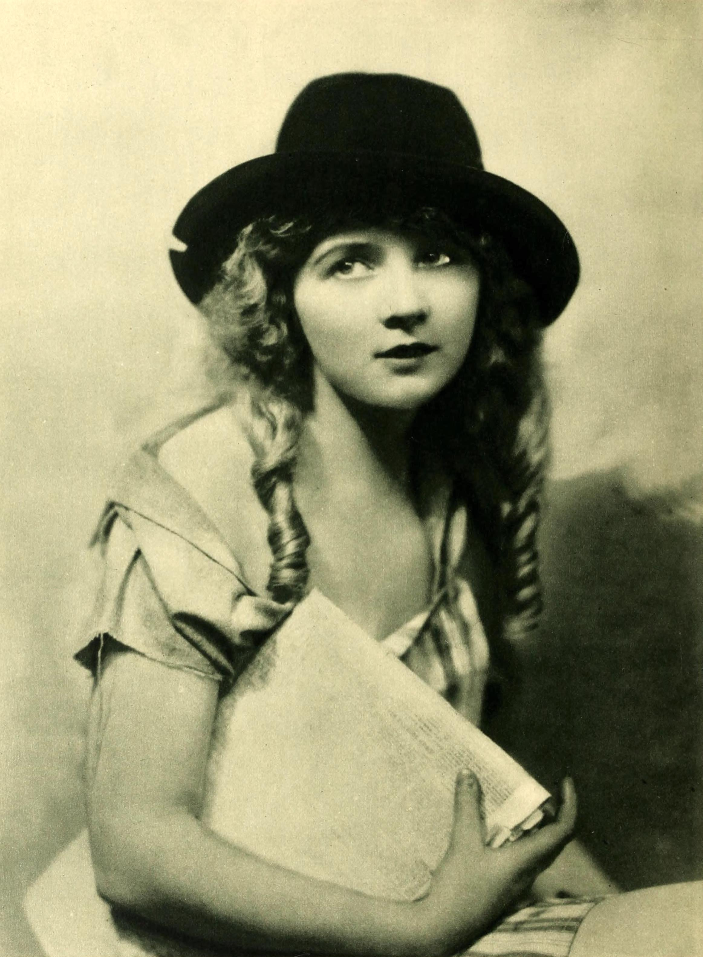 Actress Gladys Leslie on page 14 of the August 1921 Photoplay magazine.